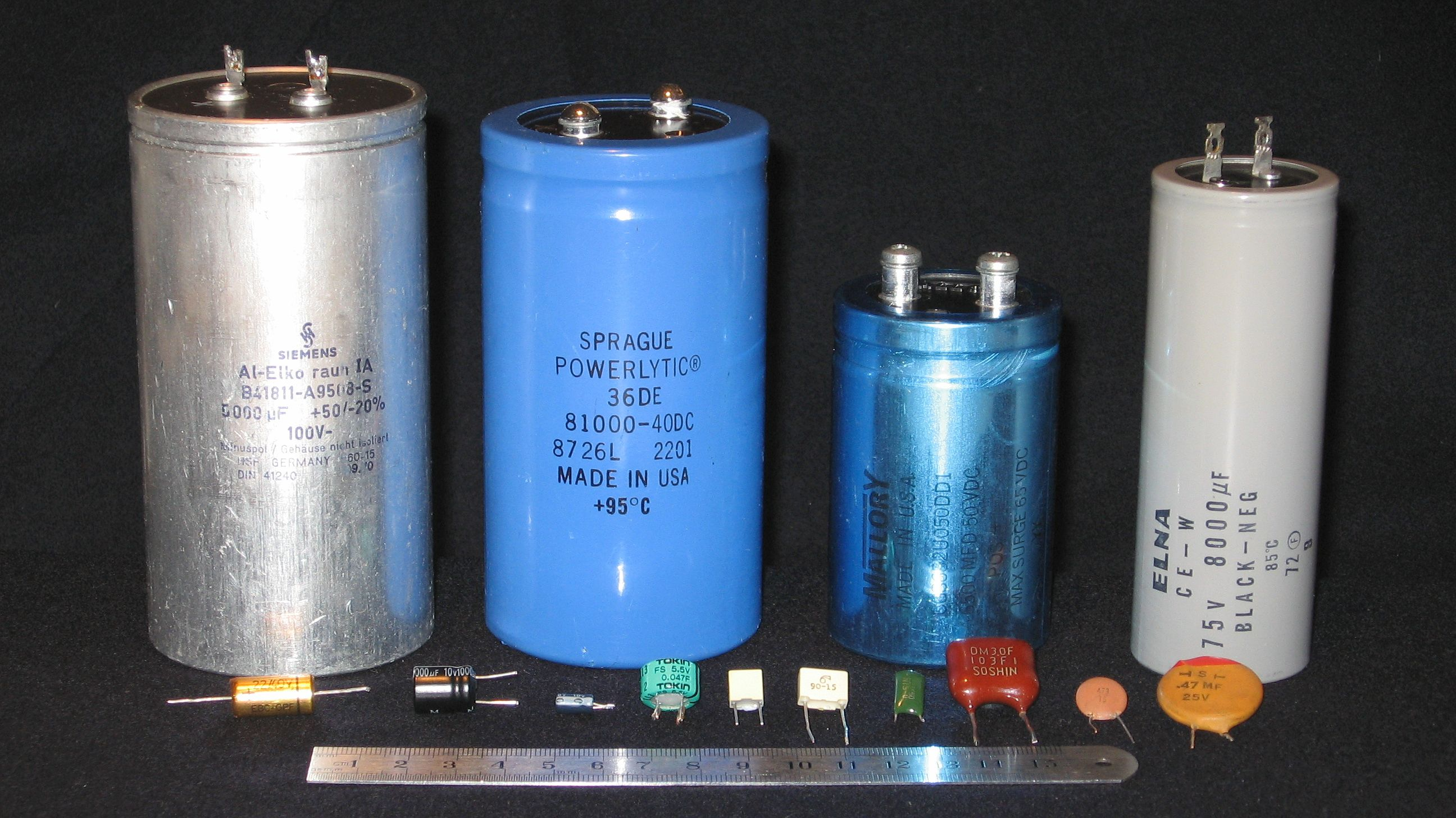 Various capacitors - some of the models are: Siemens (silver cylinder on left) at 5000 uF, Sprague at 81,000 MFD, Mallory at 6500 MFD, and Elna at 8000 uF; among the smaller capacitors, the light green cylinder is labeled "0.047 F" and the dark yellow disk (far right) is labeled ".47 MF".